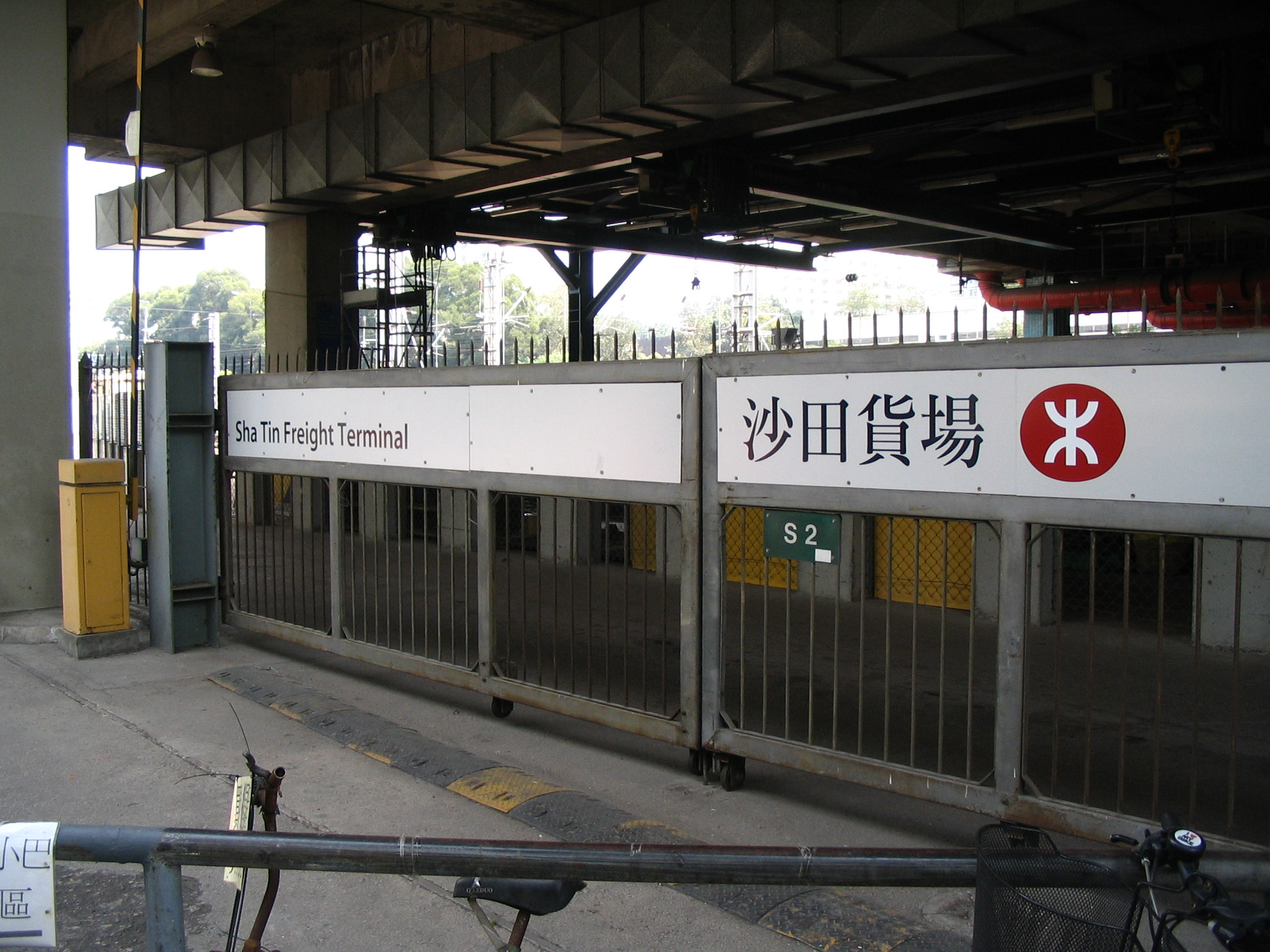 Photo of Sha Tin Freight Terminal